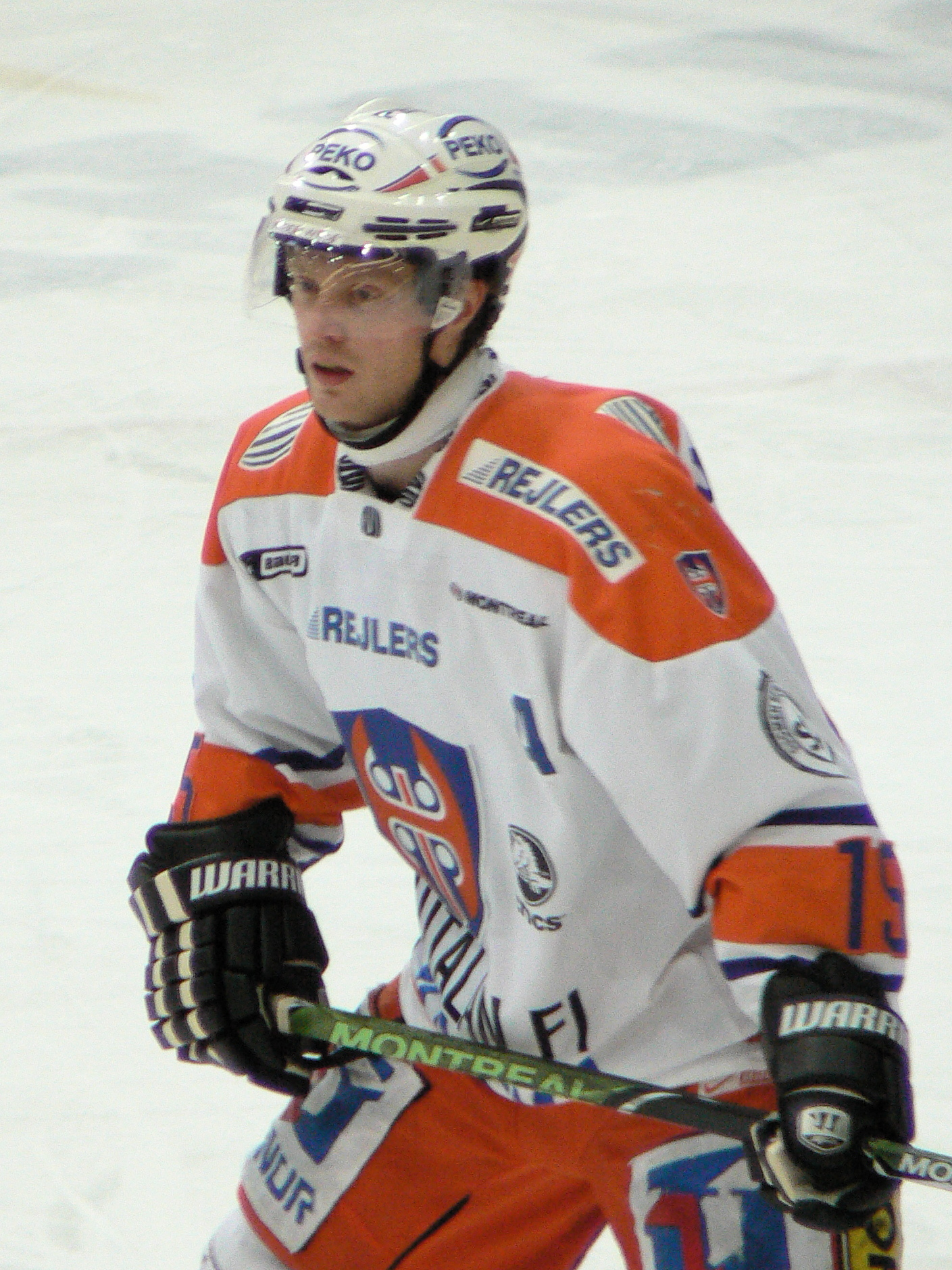 Finnish ice hockey defenceman Jussi Halme playing for Tappara Tampere in January, 2009.